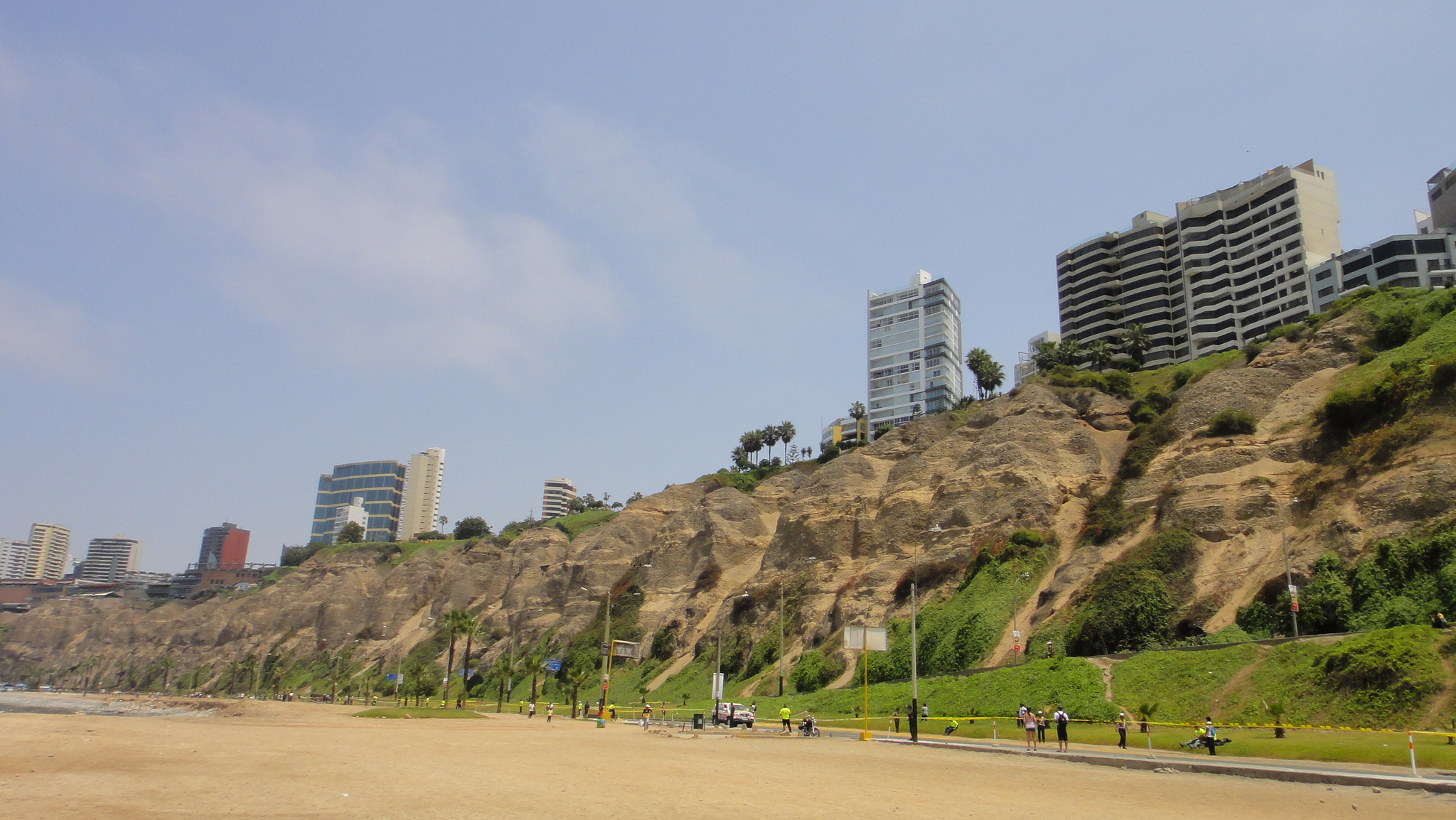 Cityscape of buildings.